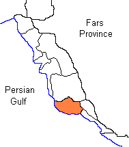 Deyr County in Map of Bushehr Province of Iran.